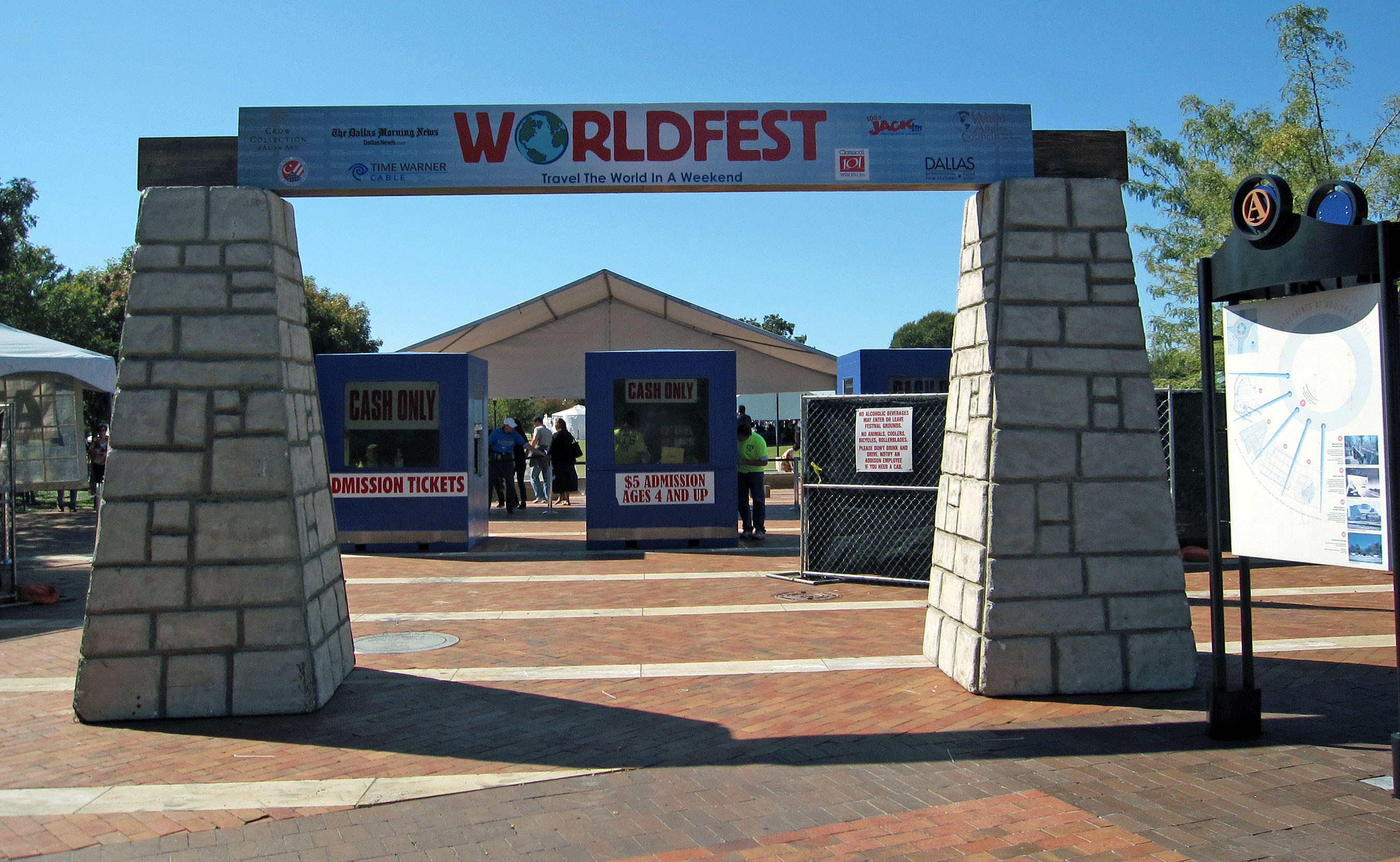 Addison Circle entrance